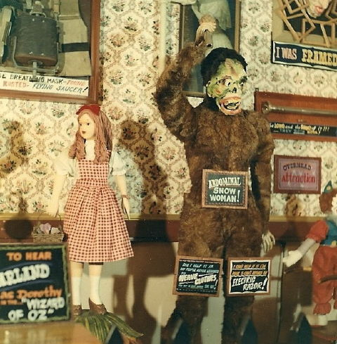 Dorothy from the Wizard of Oz is guarded by the Abdominal Snow Woman inside Jones' Fantastic Museum in Seattle, USA during the period 1960-1980.